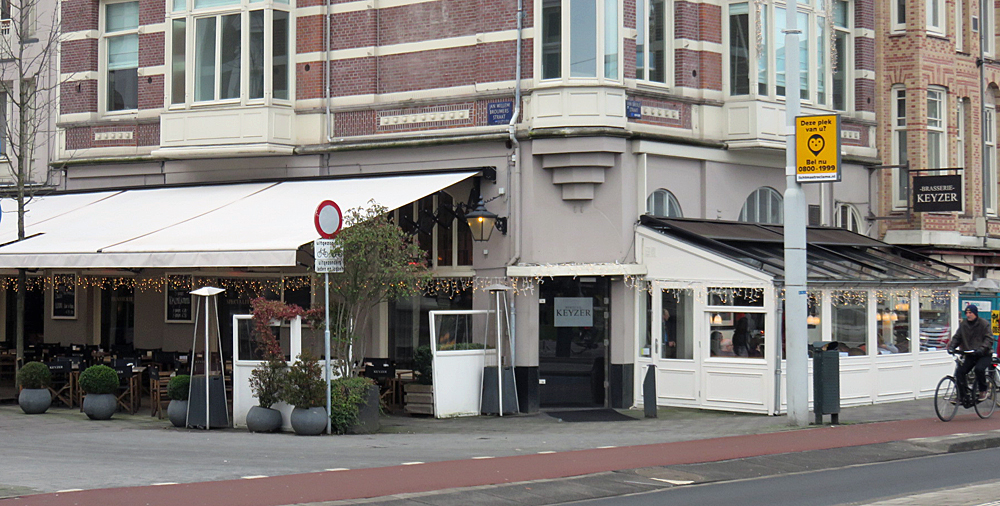 Grand-cafe restaurant Keyzer at Van Baerlestraat 96 in Amsterdam, right next to the Concertgebouw.